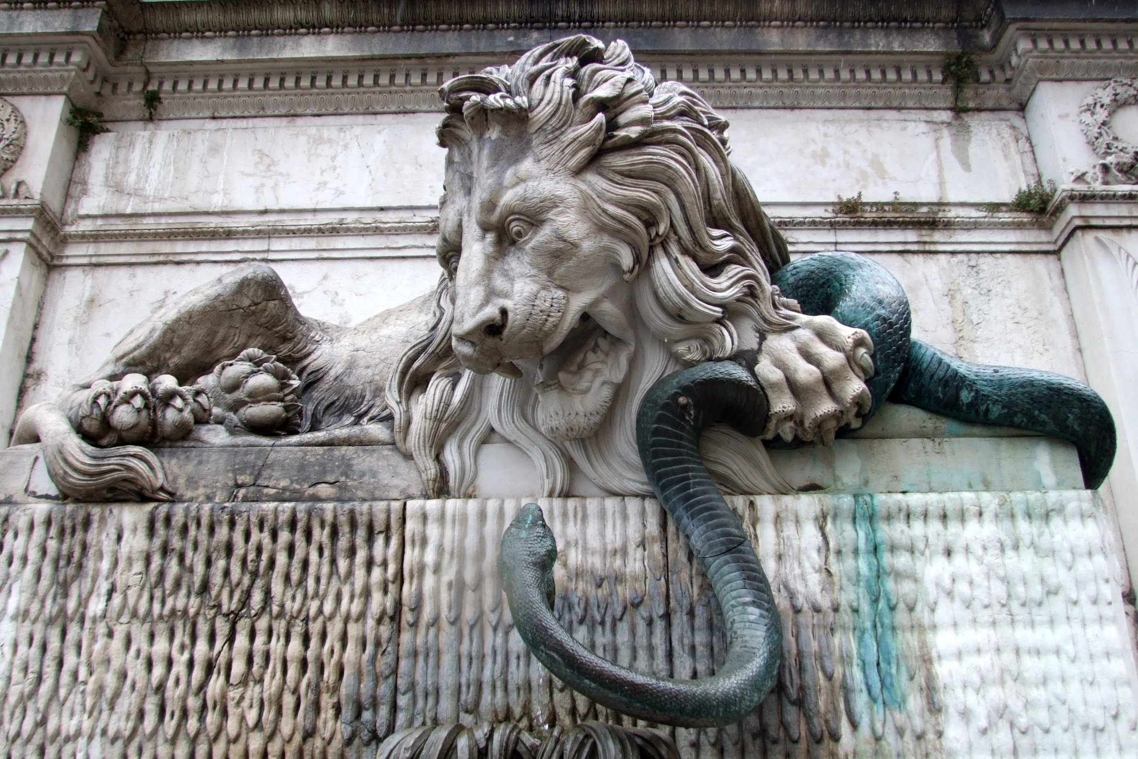 Grenoble, France, FRANCE